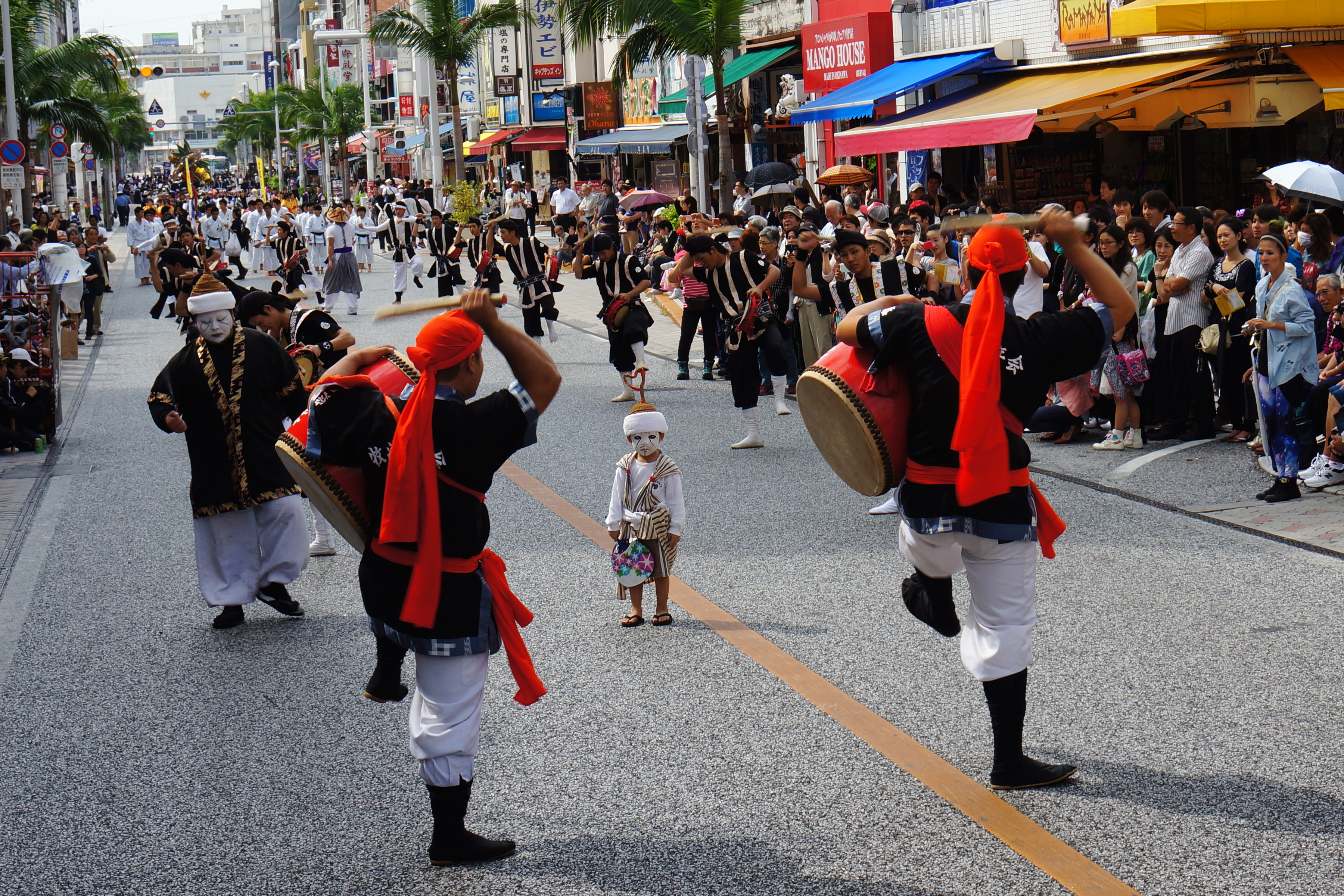 Shuri_Castle_Festival at Kokusai-dori, Naha, Okinawa prefecture, Japan.